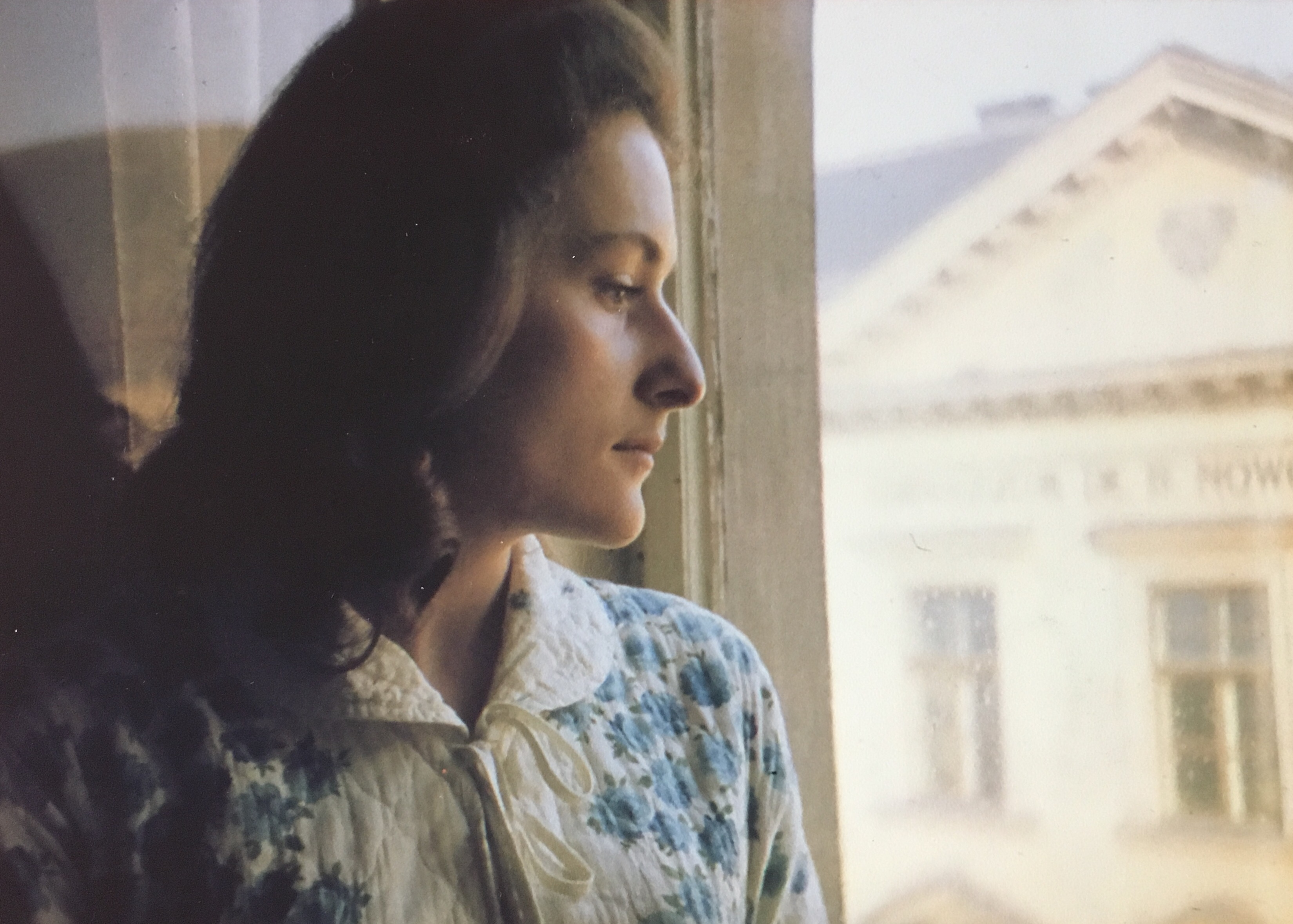 Jadwiga Pstrusińska - Polish Orientalist (1963)